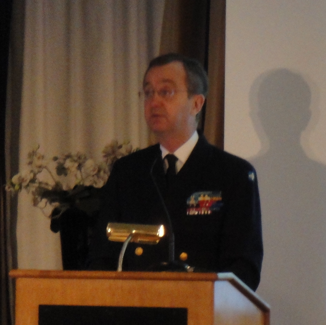 General Håkan Syrén, Chairman of the EU Military Committee and former Supreme Commander of the Swedish Armed Forces, at a conference in Brussels.